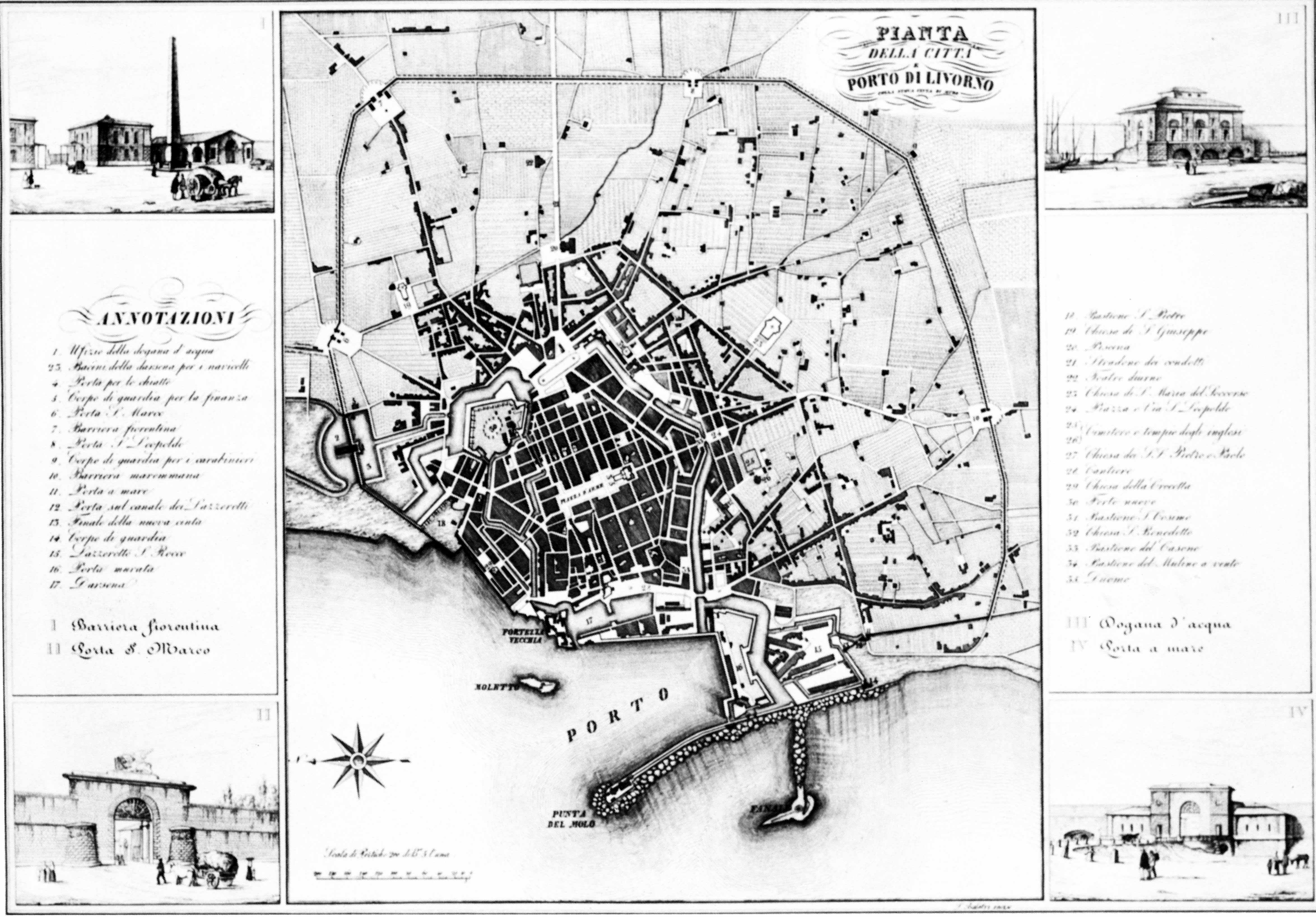 Italy, Livorno. The architectural plan of the town of Livorno with the new city walls. (Archivio di Stato, Fiumi e Fosi 232, Pisa)